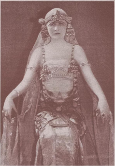 Mary Garden, as Cleopatra, photograph by Moffett Studios, from a 1921 publication.